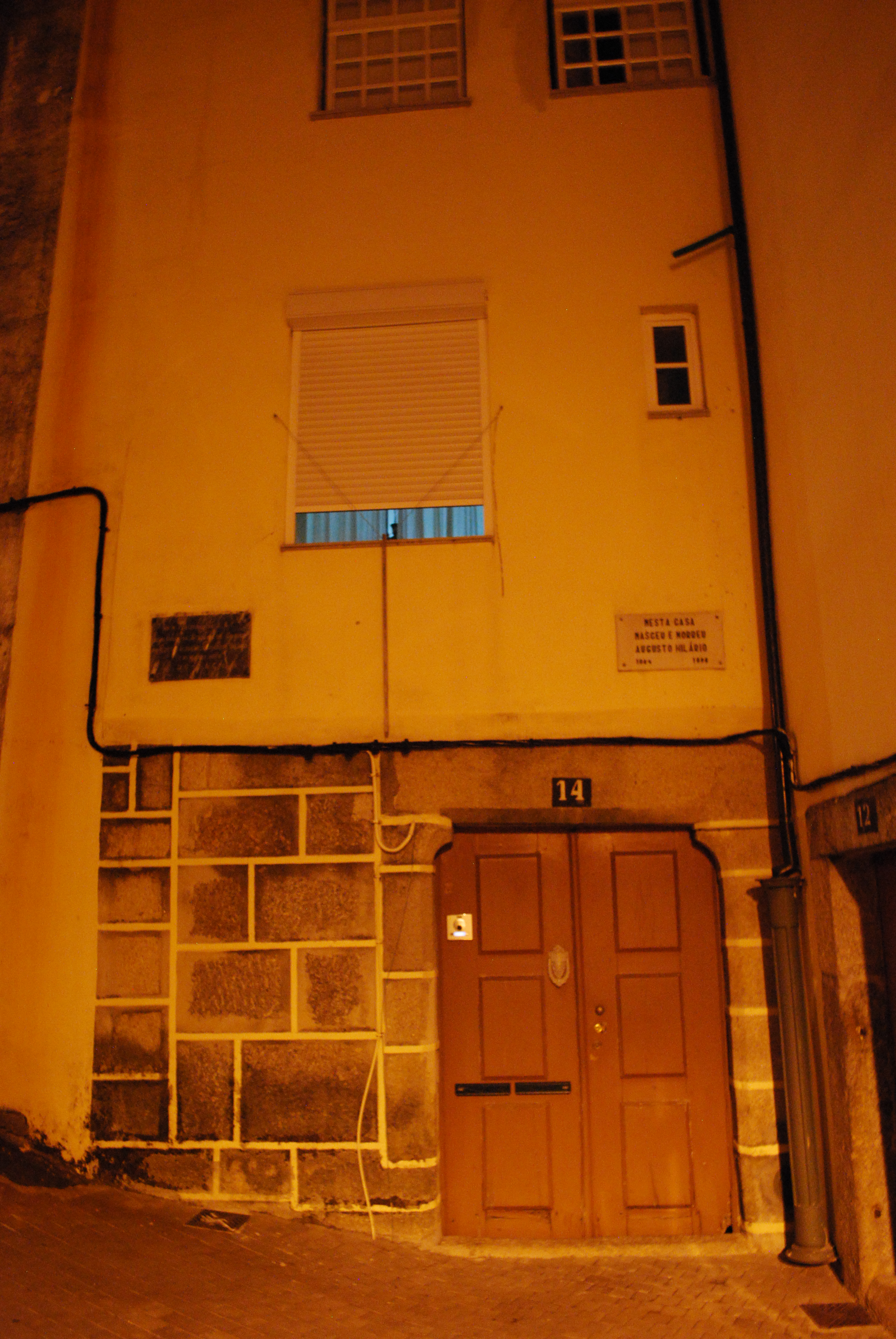 This file was uploaded for Wiki Loves Monuments in Portugal with the unique identifier 97027410.